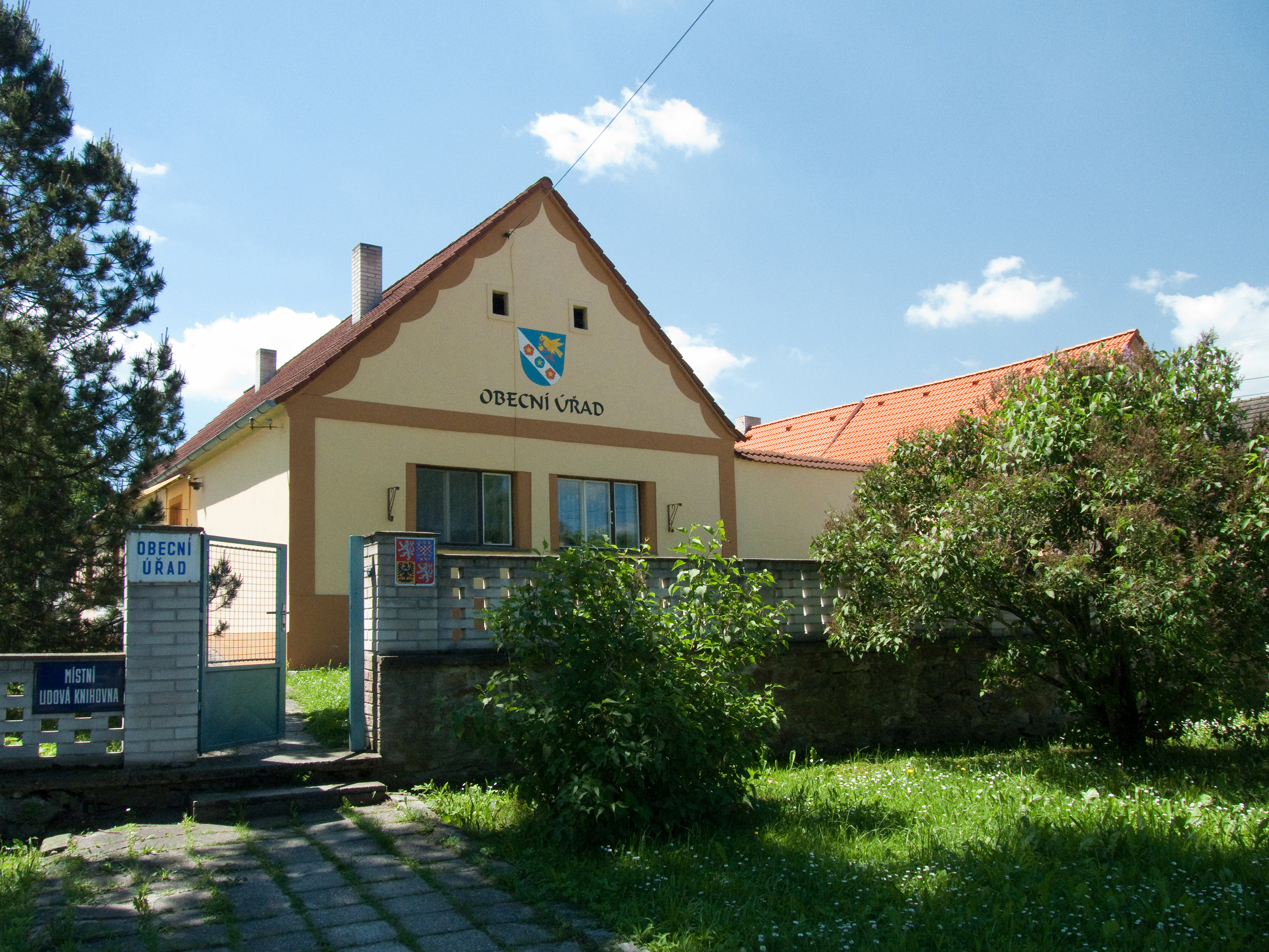 Municipal authority and local library building in the village of Přehořov, Tábor district, Czech Republic